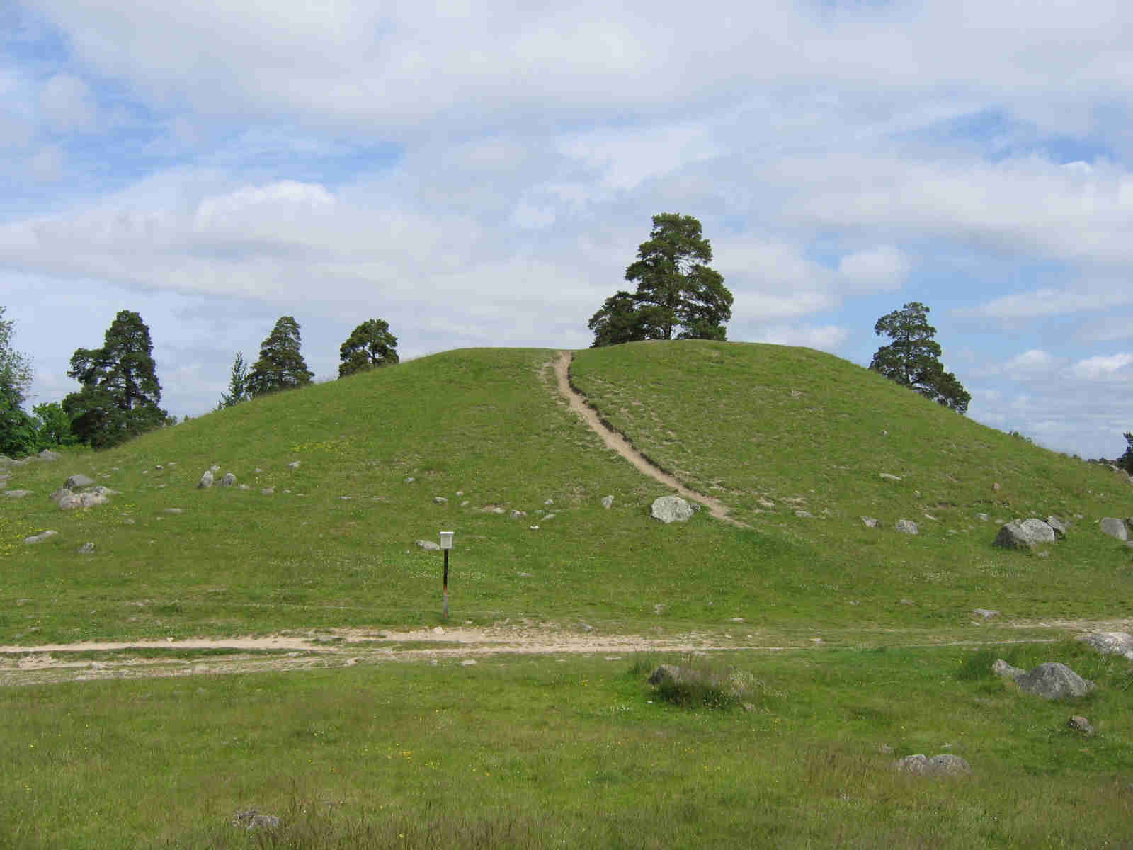 my own pic for wikipedia use